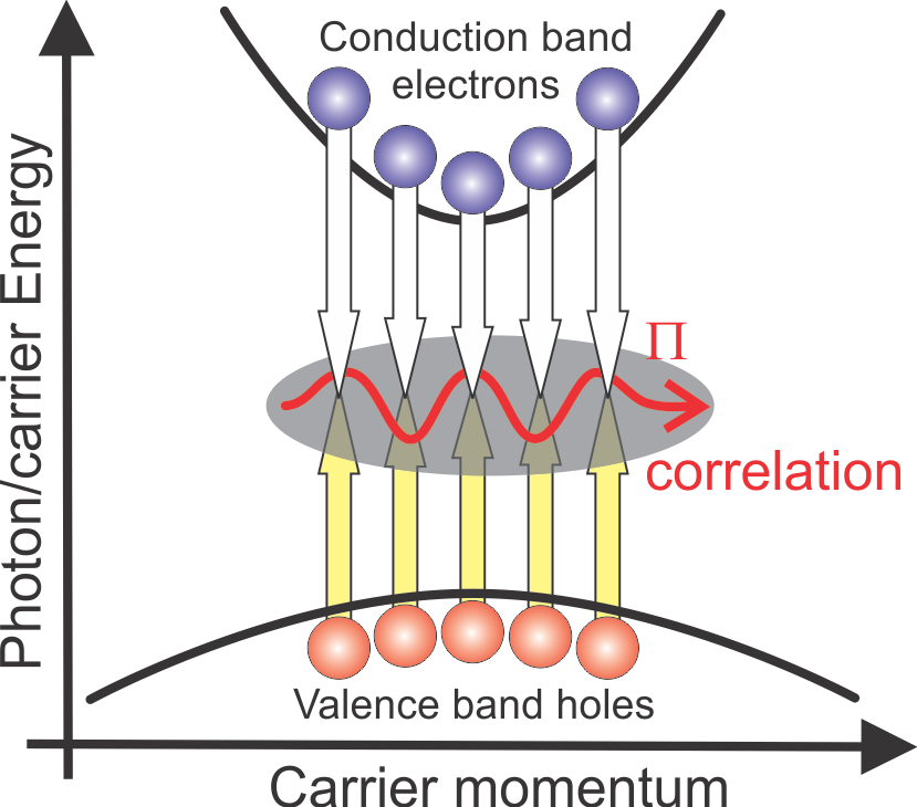 Build-up of photon-assisted polarization (Π correlation) that is initiated by the spontaneous-emission source.